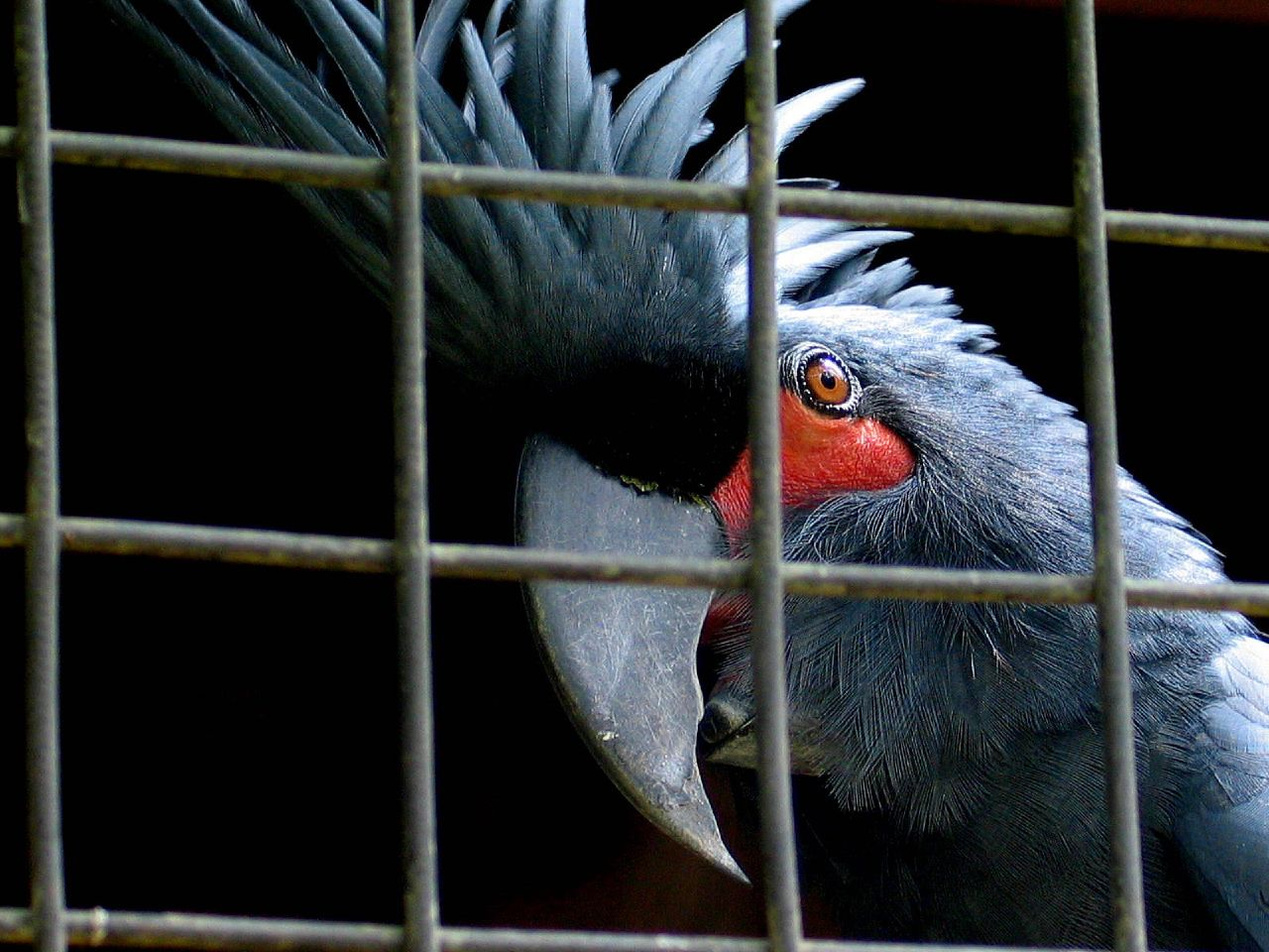 Palm Cockatoo (Probosciger aterrimus) at Bali Bird Park. Head and face behind cage bars.